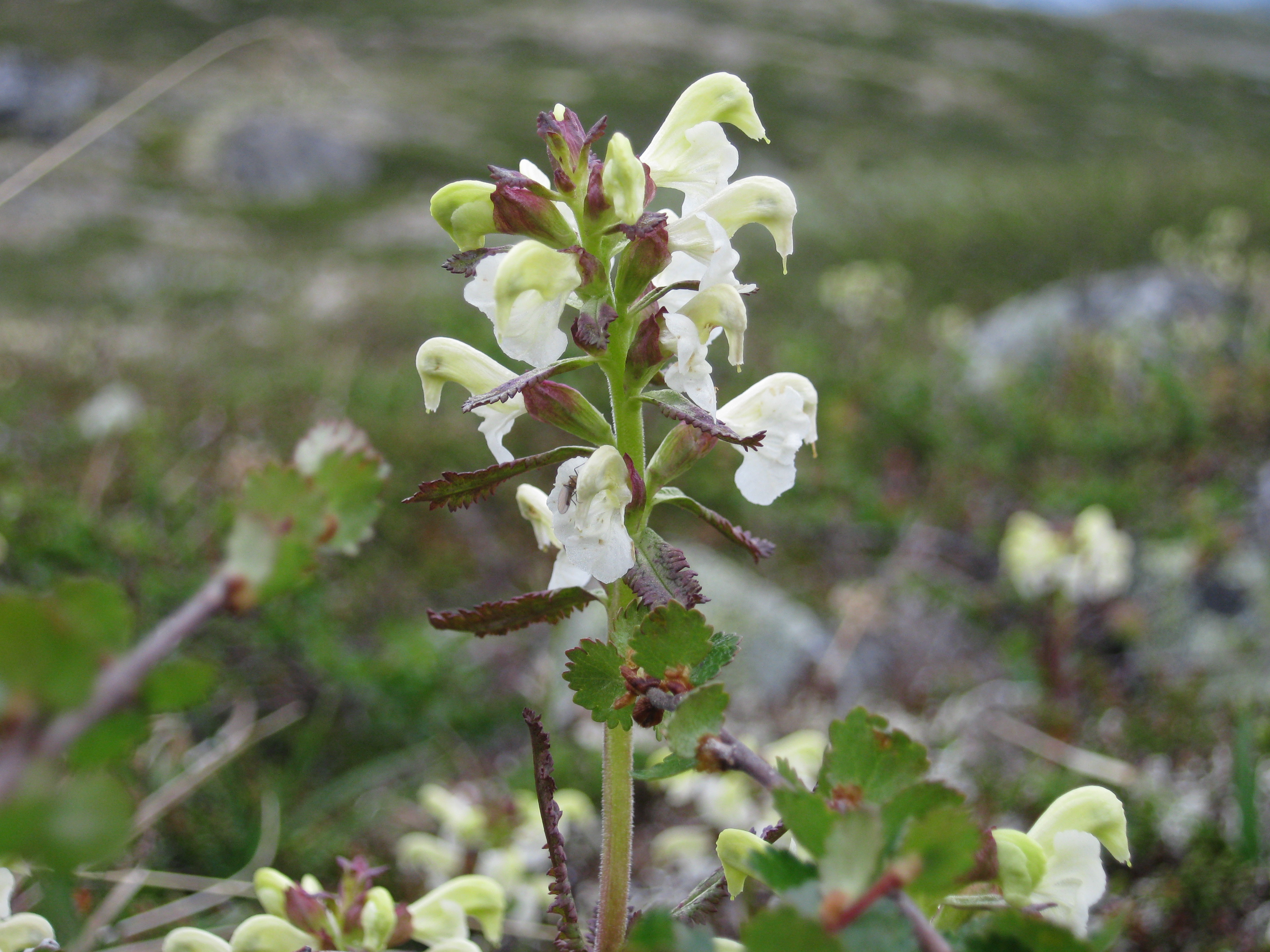 Pedicularis lapponica, photographed on the Hardangervidda mountain plateau, at the border between Hordaland and Buskerud counties, Norway, 1100-1200 meters above sea level.